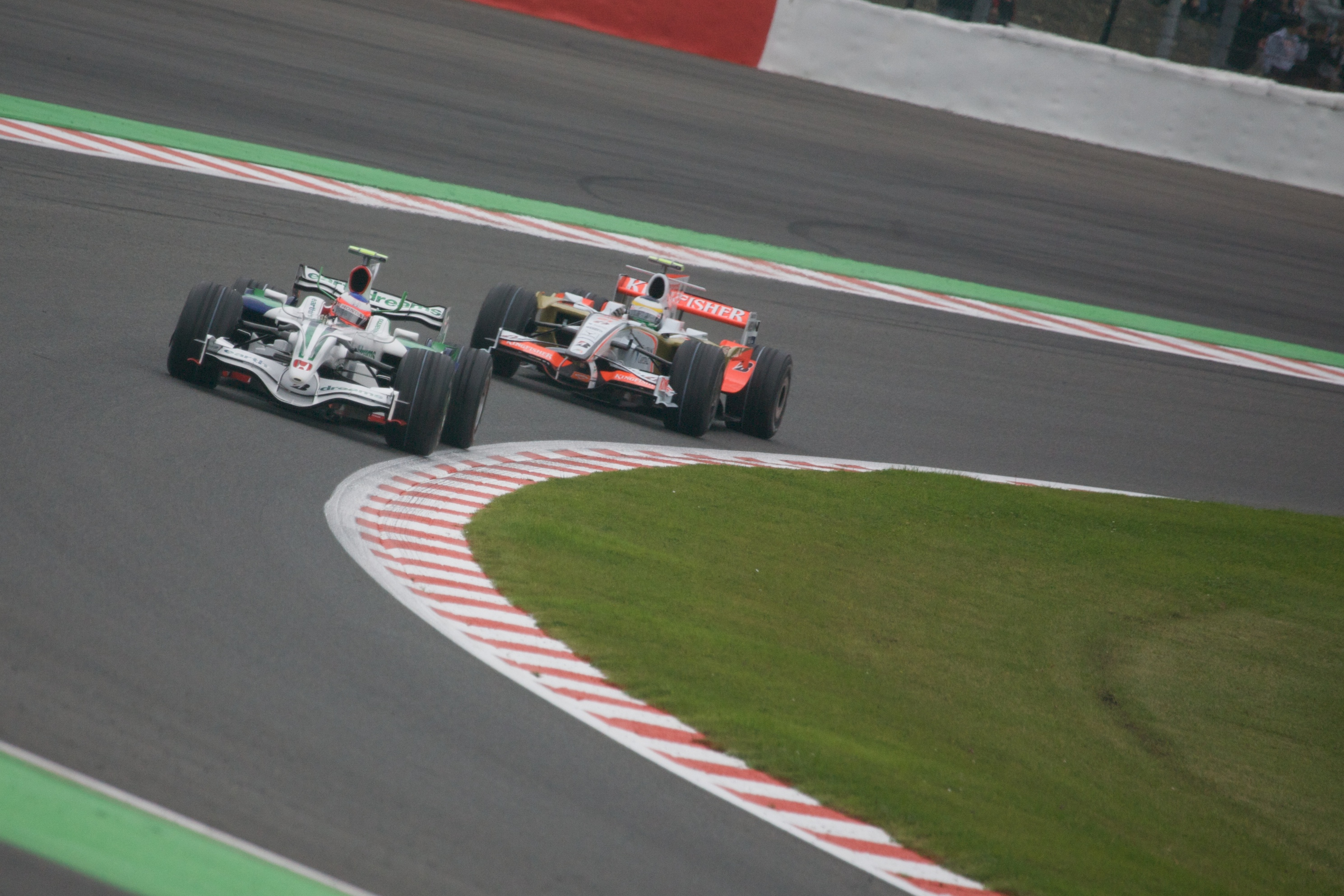 Rubens Barrichello (Honda F1) leads Giancarlo Fisichella (Force India) at the 2008 Belgian Grand Prix.